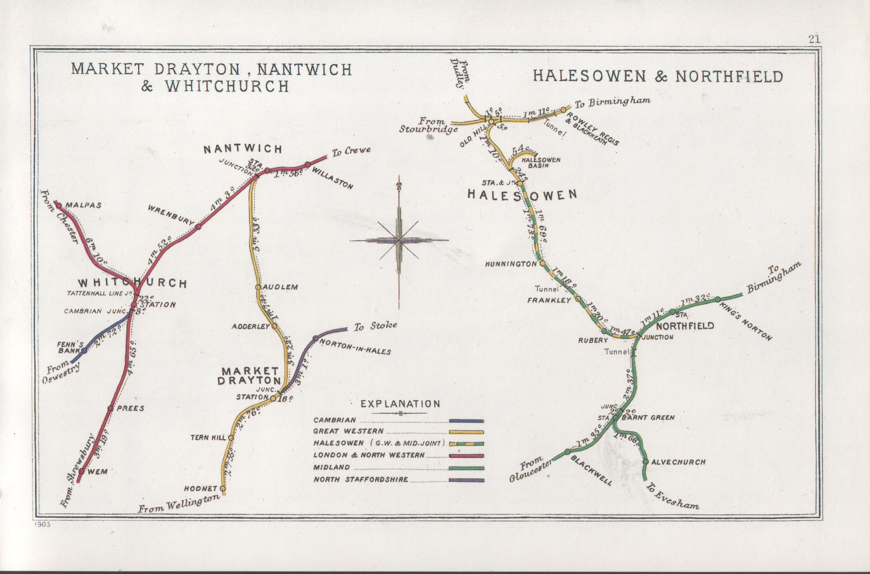 Pre Grouping railway junction around Market Drayton, Nantwich & Whitchurch Halesowen & Northfield